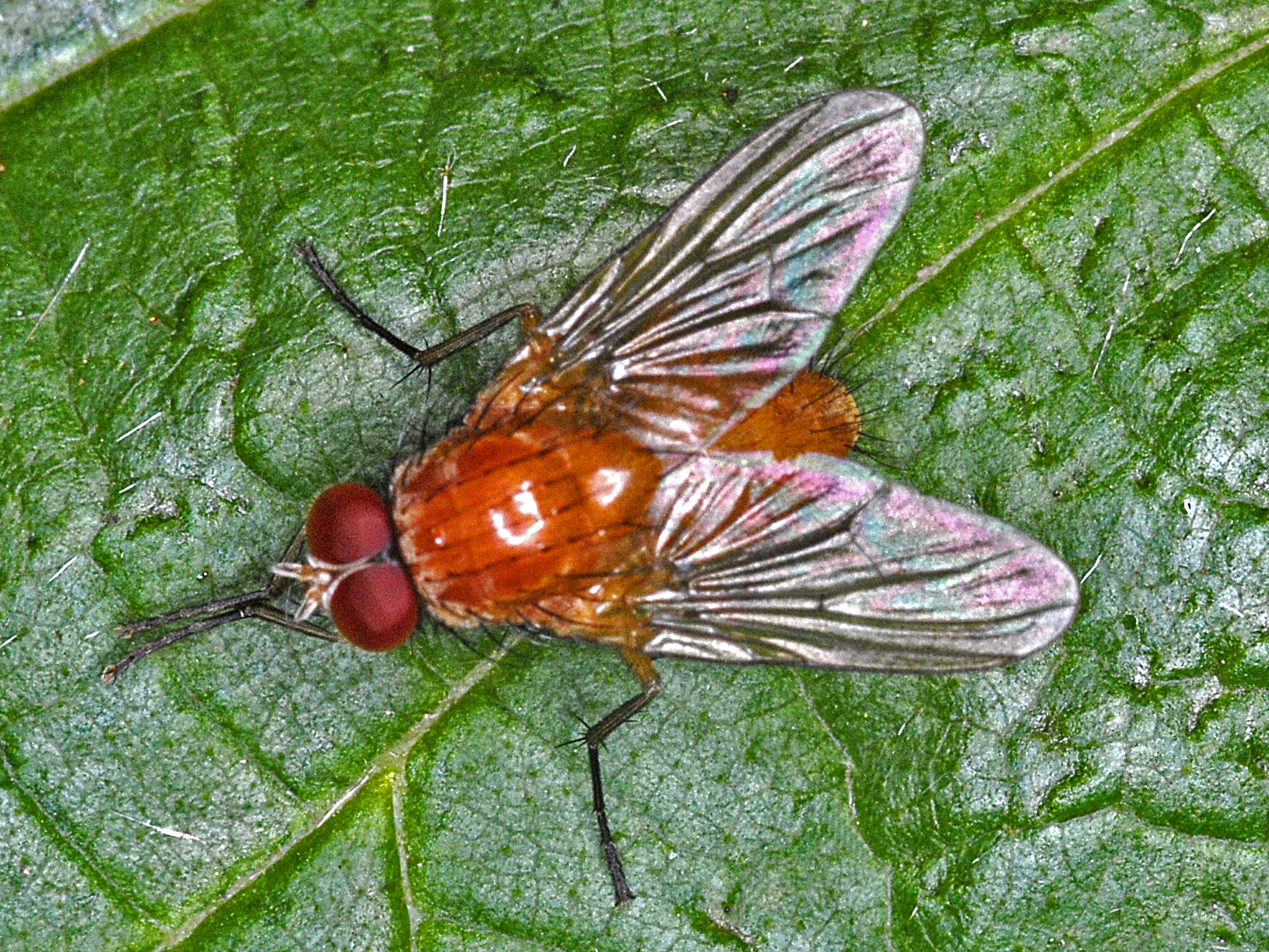 Phaonia pallida. Male. Vi Superiore, Genova, Italy